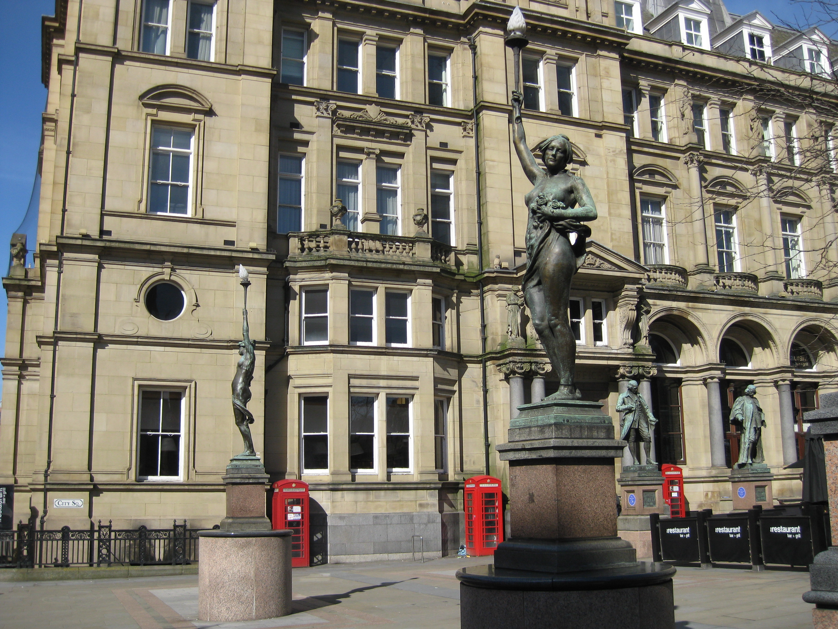 Leeds City Square. In the background the former Leeds City Post Office. Two female bronze statues holding lamps by Alfred Drury representing Morn and Even. In the rear bronze statues of James Watt and John Harrison. 3 red telephone booths.